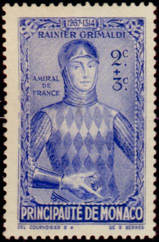 Stamp depicting Rainier I